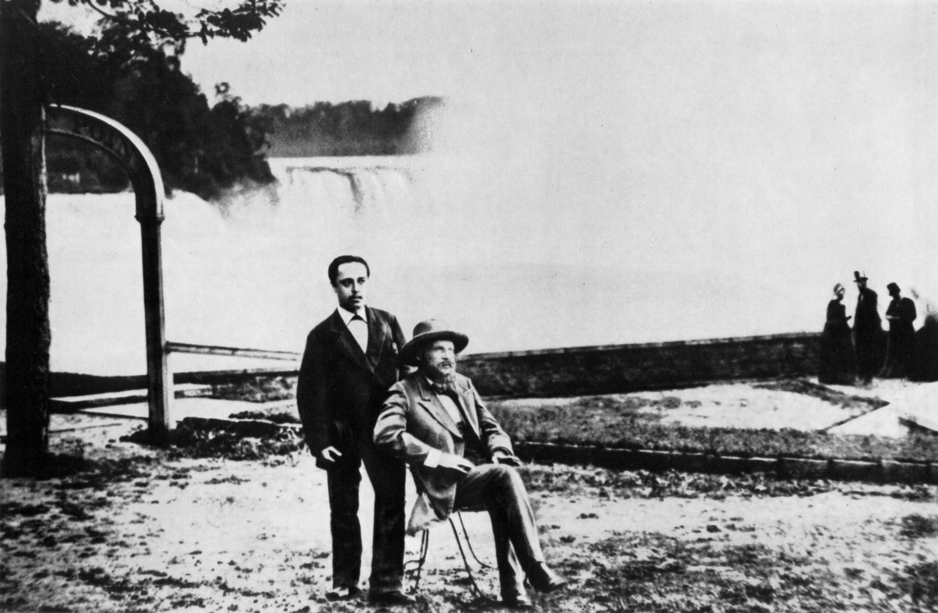 D. I. Mendeleev and V. A. Gemilian on Niagara. 1876